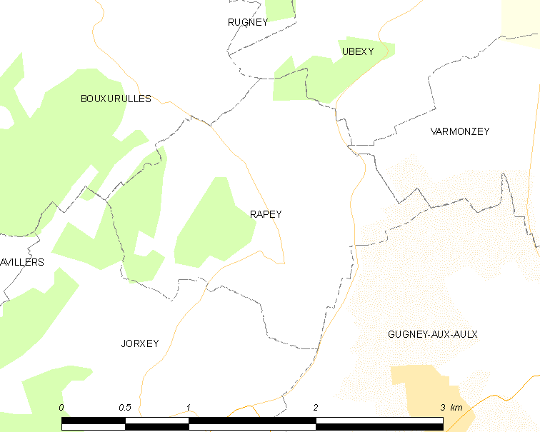 Map of French municipality Rapey